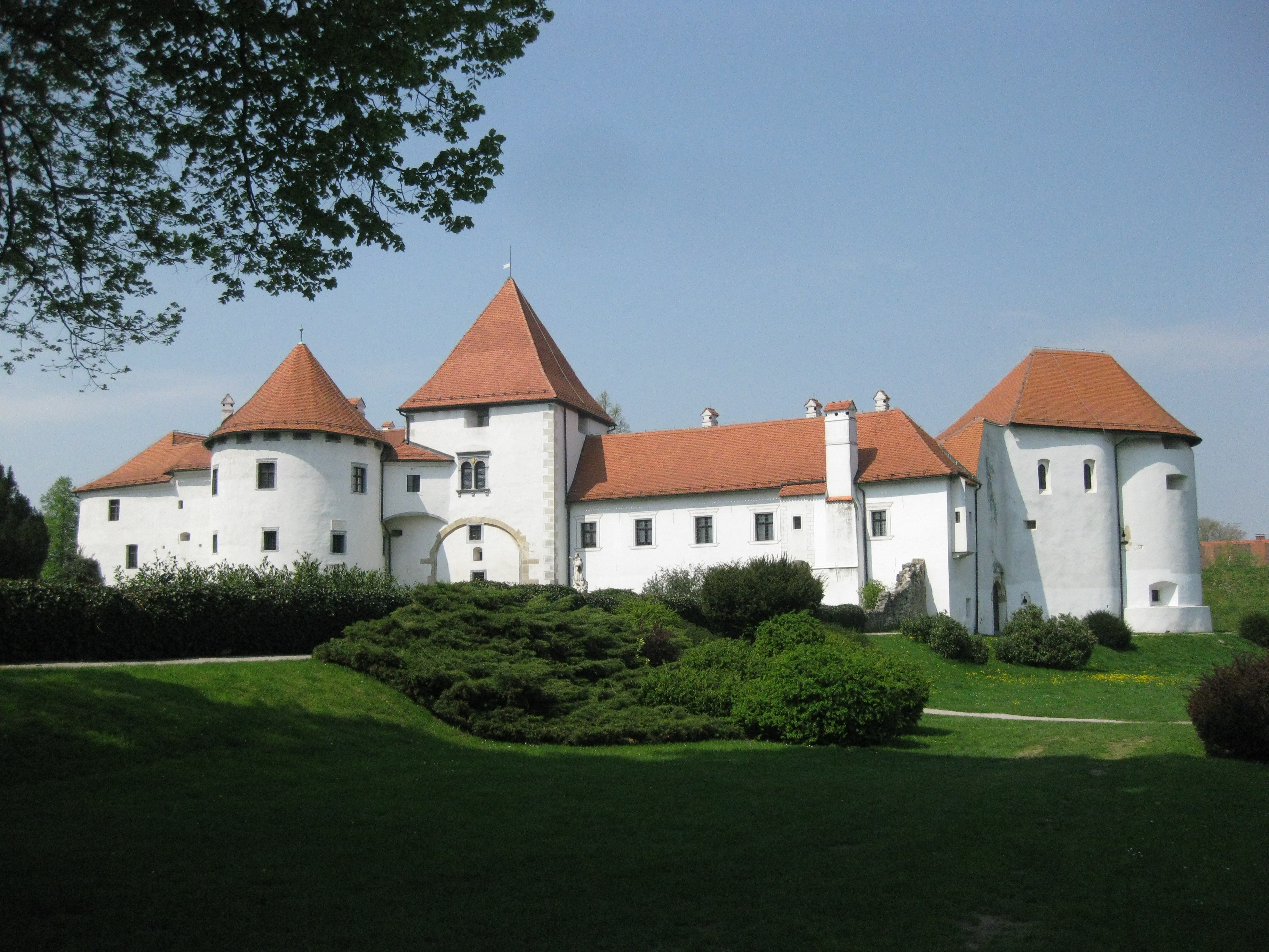 Varazdin Castle in summer 2009